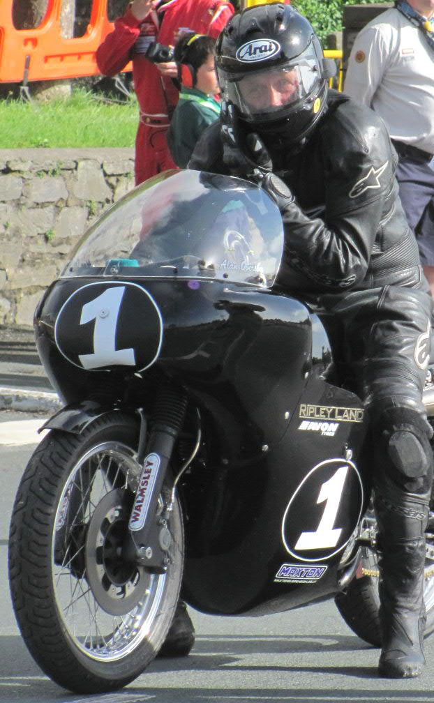 A modern machine at the start of the Classic Manx Grand Prix fitted with a Peel-style fairing with handlebar-clisters